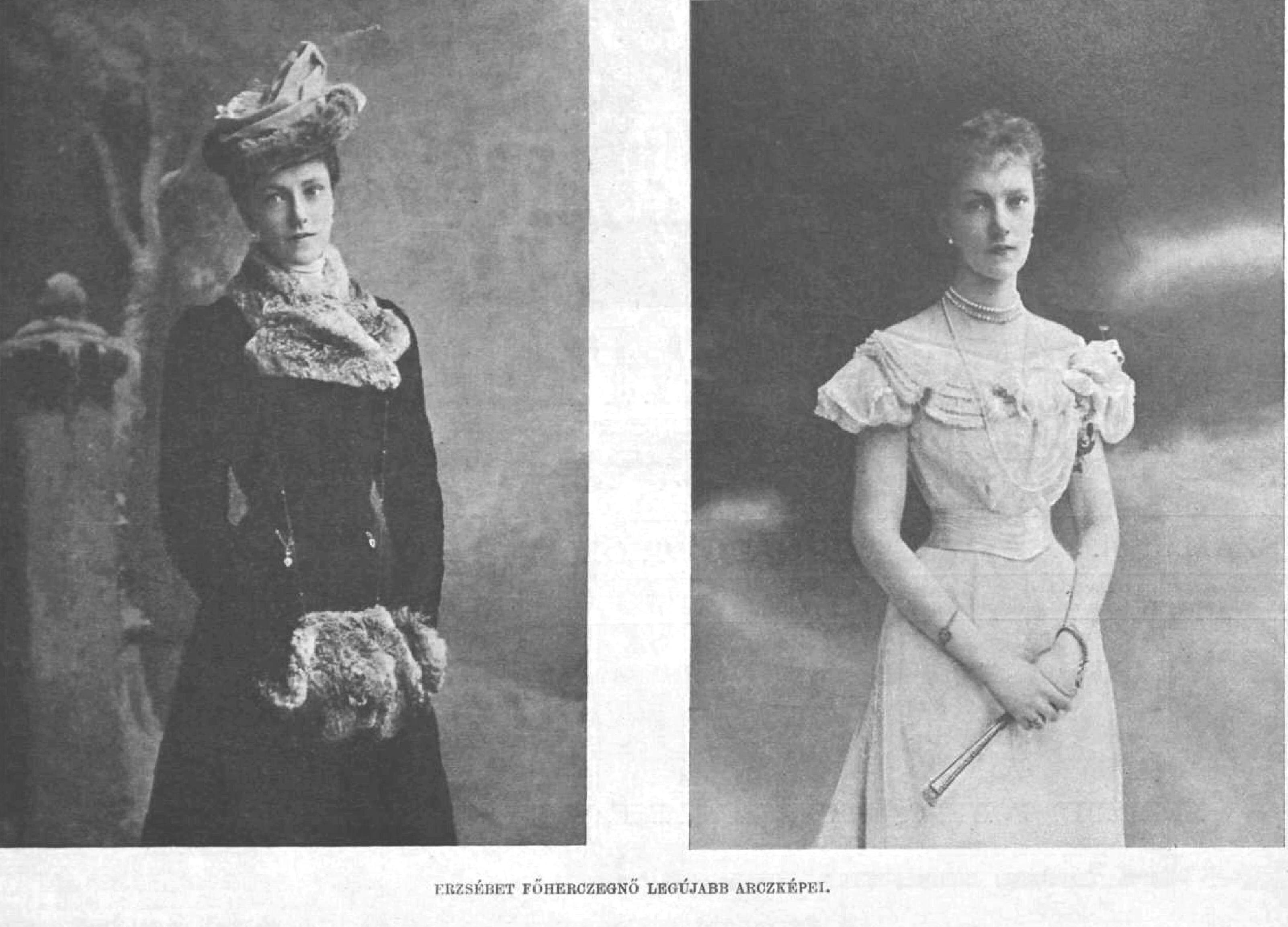 Archduchess Elisabeth Marie of Austria